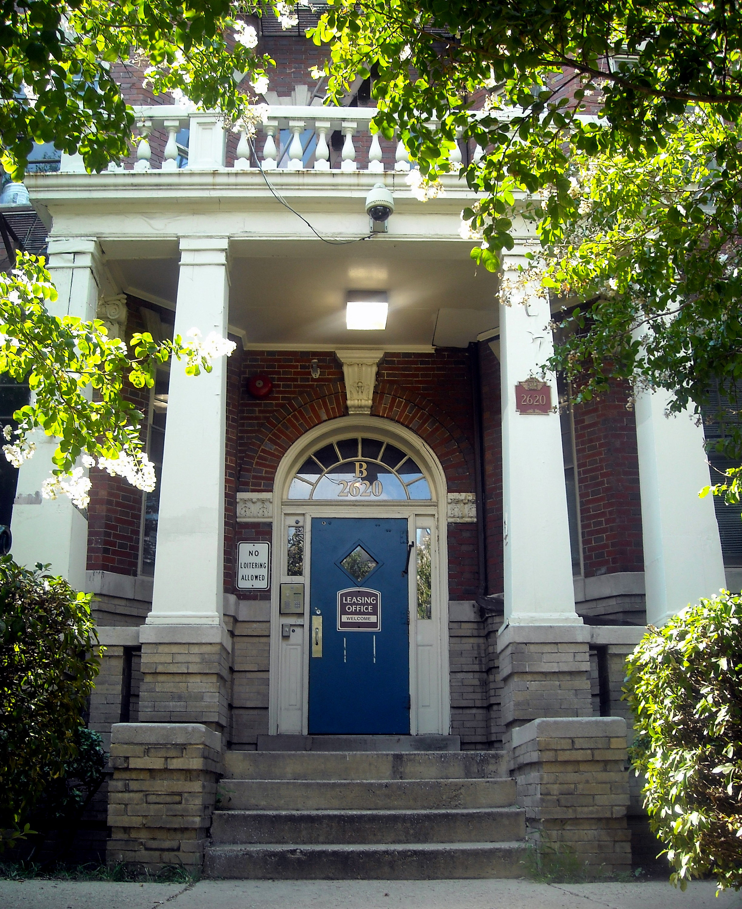 The Babcock located at 2620 13th Street, NW in the Columbia Heights neighborhood of Washington, D.C. The apartment building, along with its neighbors, The Alben and The Calvert, are listed on the National Register of Historic Places. The buildings were designed by Edgar S. Kennedy in 1904 and are examples of Colonial Revival architecture.